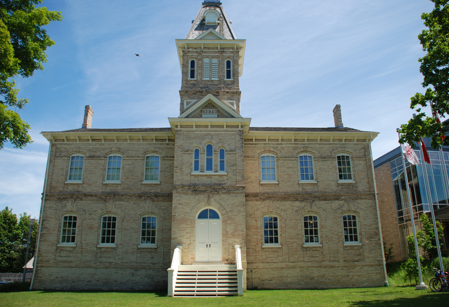 Victoria Street Public School, now part of Bruce County Museum and Archives